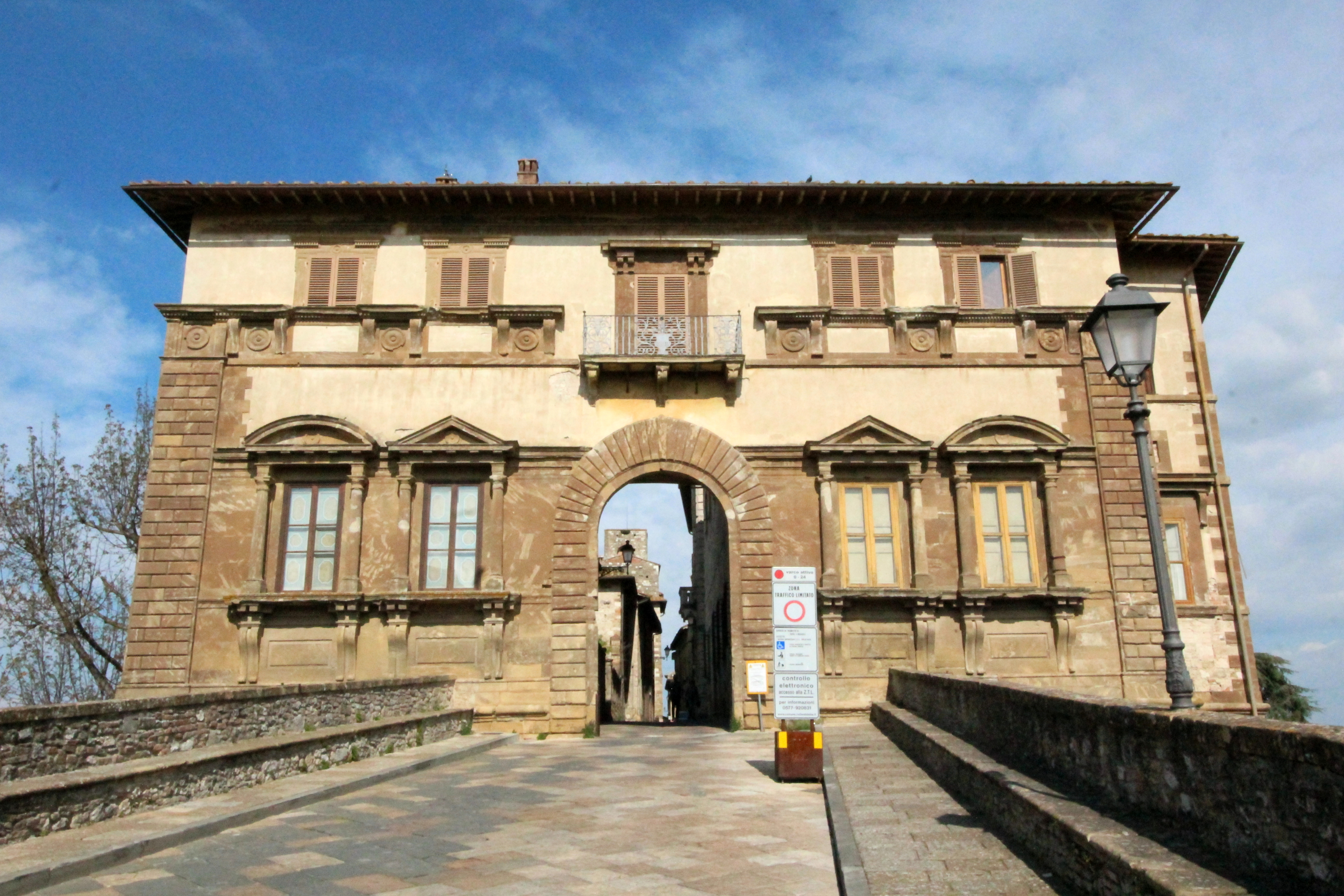 Palace Palazzo Campana, Colle di Val d'Elsa, Province of Siena, Tuscany, Italy